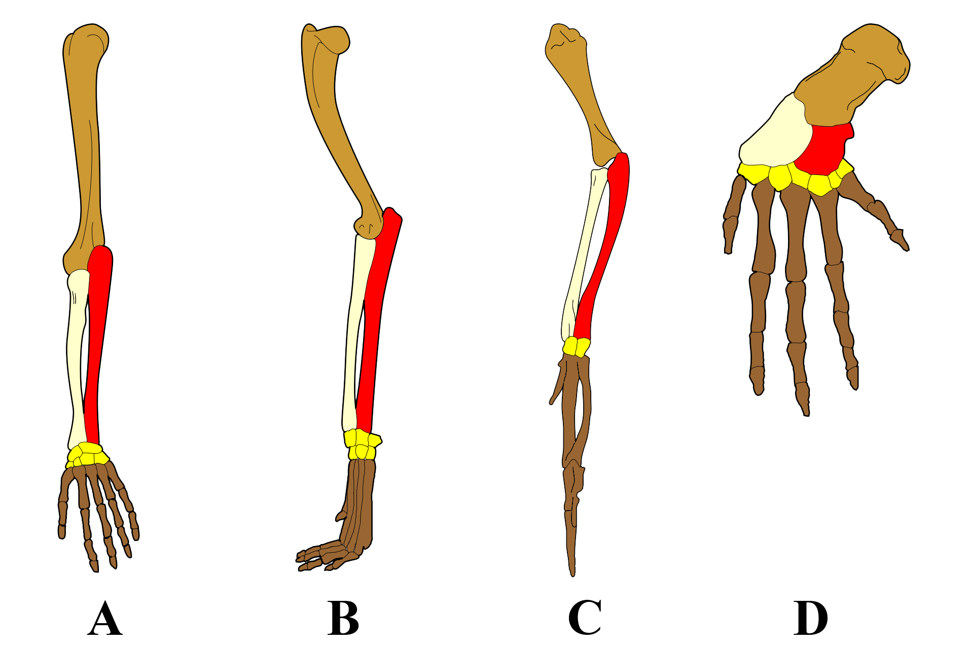 The principle of homology: The biological derivation relationship (shown by colors) of the various bones in the forelimbs of four vertebrates is known as homology and was one of Darwin’s arguments in favor of evolution. A-human, B-dog, C-bird, D-whale.